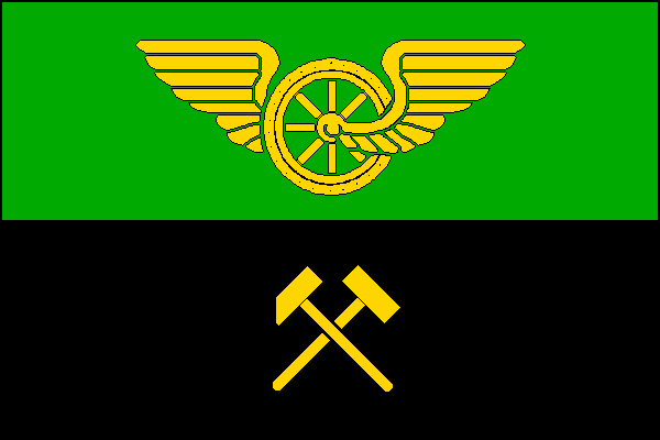 Flag of Citice municipality, Sokolov District, Czech Republic.